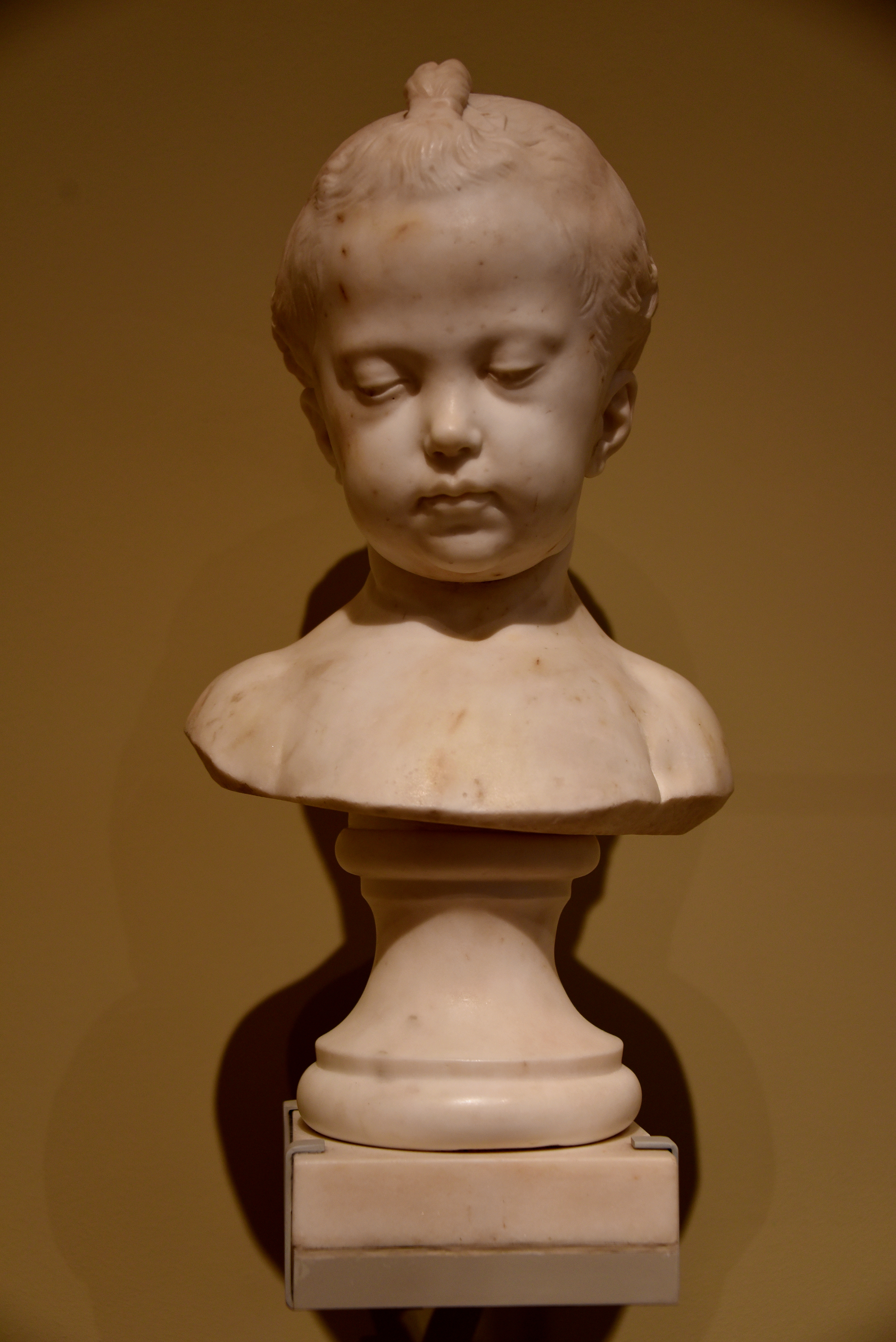 A Young Girl. Marble bust, 1770-1790 CE, by Jacques Saly. From Paris, France. The Victoria and Albert Museum, London..